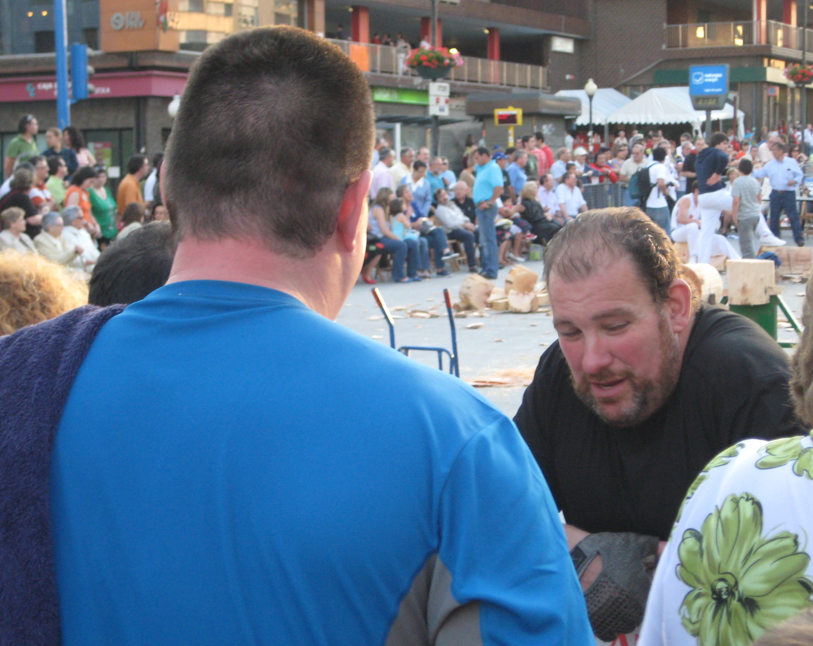 Navarran stone lifters Inaxio Perurena (in blue) and his father Iñaki Perurena (in black) after an exhibition for the Saint John's fests in Leioa (Lejona), Biscay.